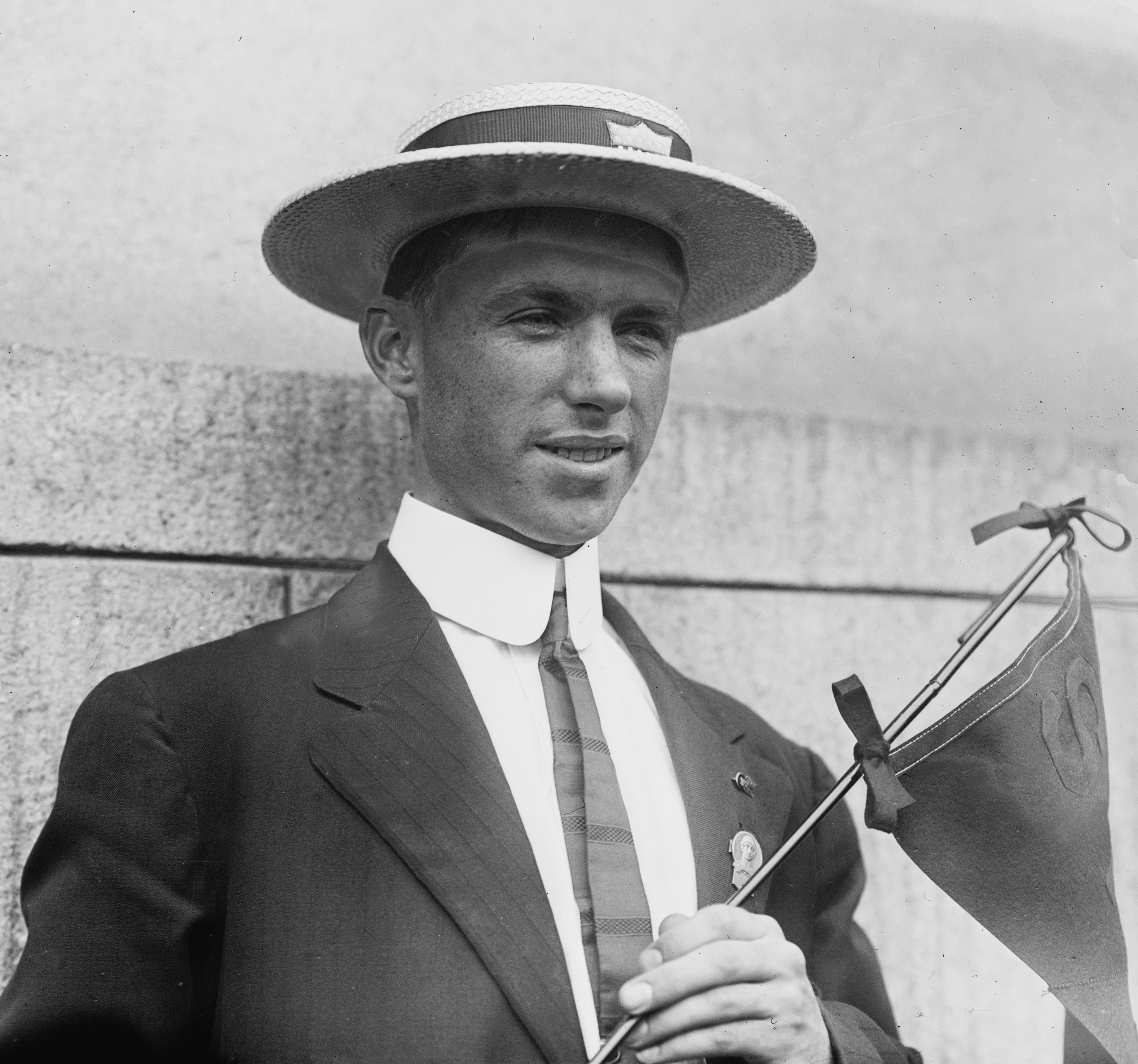 Gaston Strobino Bain News Service,, publisher. Gaston Strobino [between 1910 and 1915] 1 negative : glass ; 5 x 7 in. or smaller. Notes: Title from unverified data provided by the Bain News Service on the negatives or caption cards. Forms part of: George Grantham Bain Collection (Library of Congress). Format: Glass negatives. Repository: Library of Congress, Prints and Photographs Division, Washington, D.C. 20540 USA, General information about the Bain Collection is available at Persistent URL: Call Number: LC-B2- 2522-1